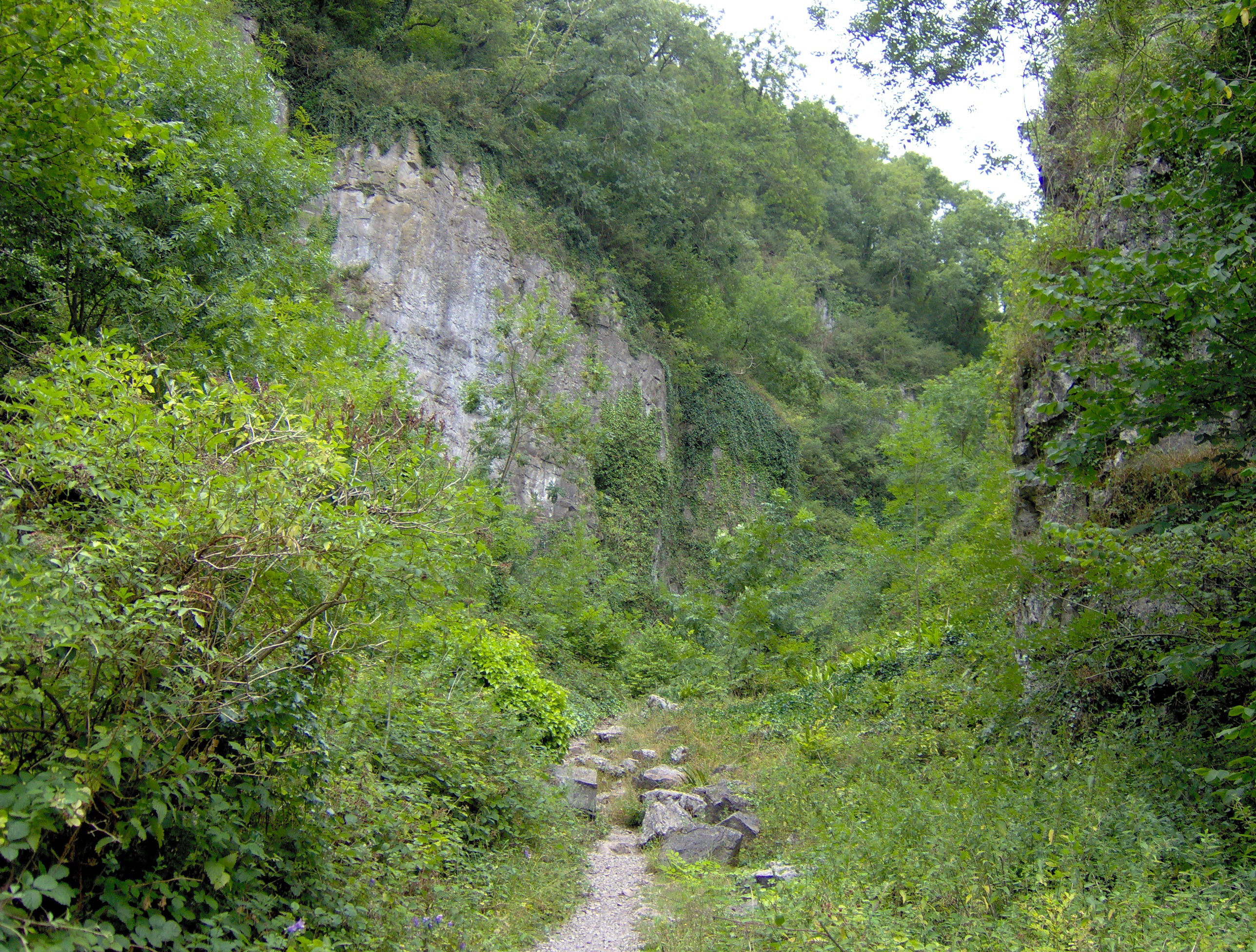 Ebbor Gorge. Taken by Rod Ward 15th Aug 2006